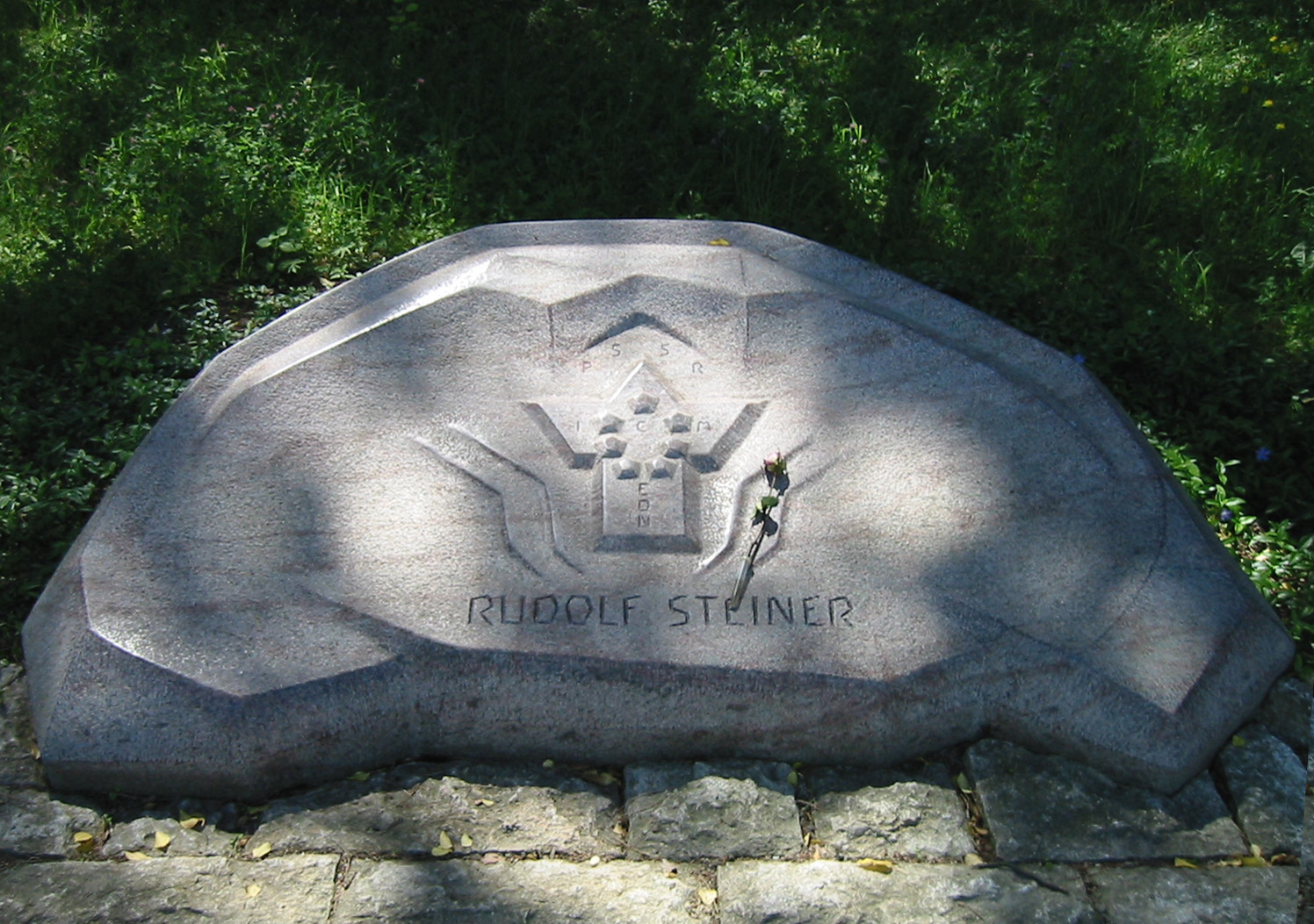 Monument of Rudolf Steiner's tomb in the park of the Goetheanum at Dornach, Switzerland.